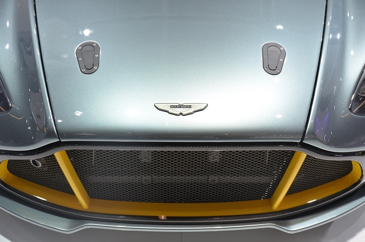 IAA Frankfurt 2013: Aston Martin CC100 / Photo: Raphael Jahn ____________________ Please feel free to use this image for FREE under the Creative Commons (CC) licence. However, if you use the image, pls set a backlink to and give credit as following: "Image: ". For highres images or any other inquiries pls contact mailto: . Thanks.